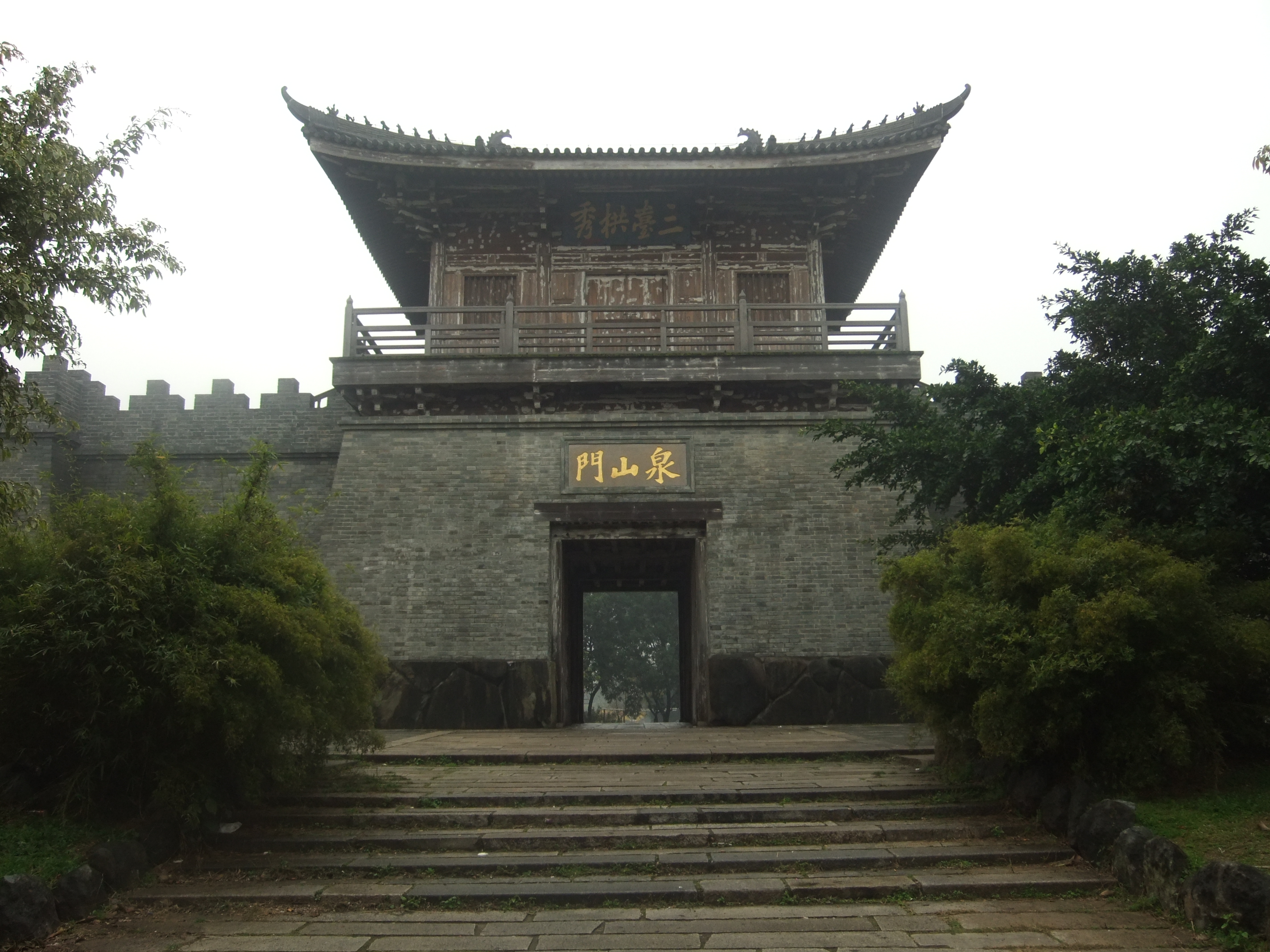 Quanshan Gate, a restored gate of the former city wall of Quanzhou. Located just north of Zhongshgan Park, north of Quanzhou's downtown. The gate is guarded by two bixi turtles, carrying stone tablets telling the story of the gate and its restoration. Somewhat unusually, the turtles face north, as if to meet visitors entering the city.